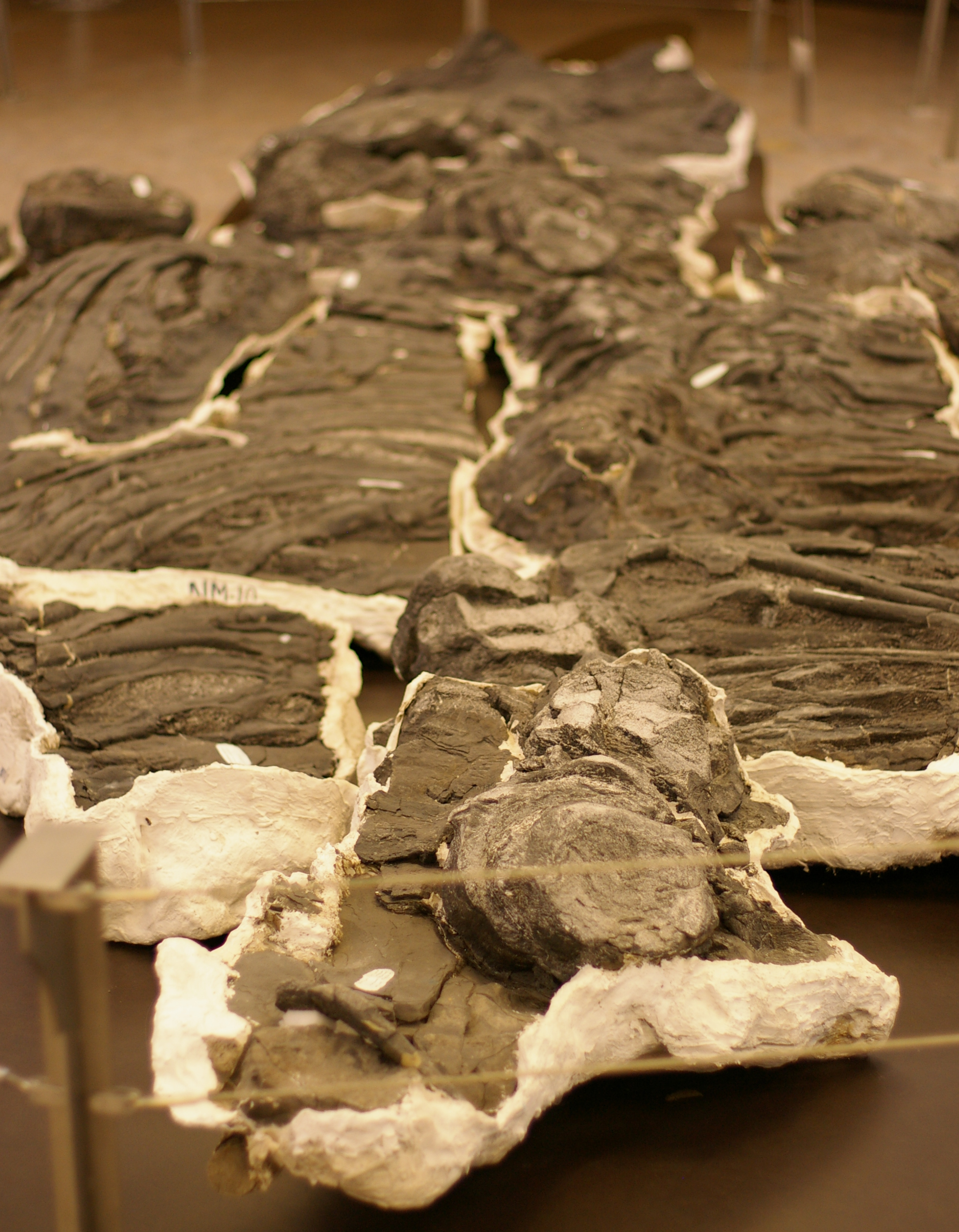 Shastasaurus (formerly Shonisaurus) sikkanniensis at The Royal Tyrrell Museum.